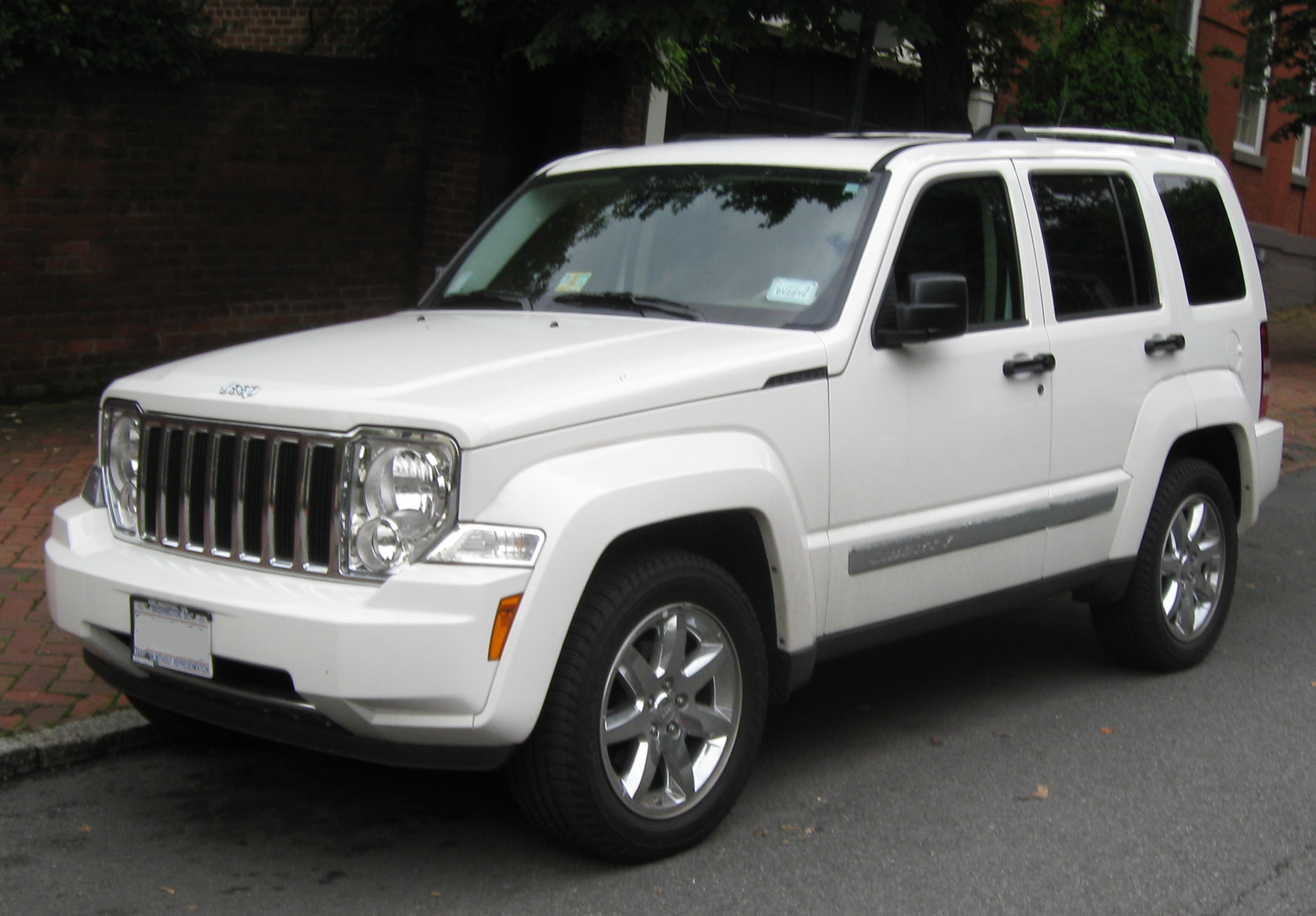 2008-2009 Jeep Liberty photographed in Washington, D.C., USA.